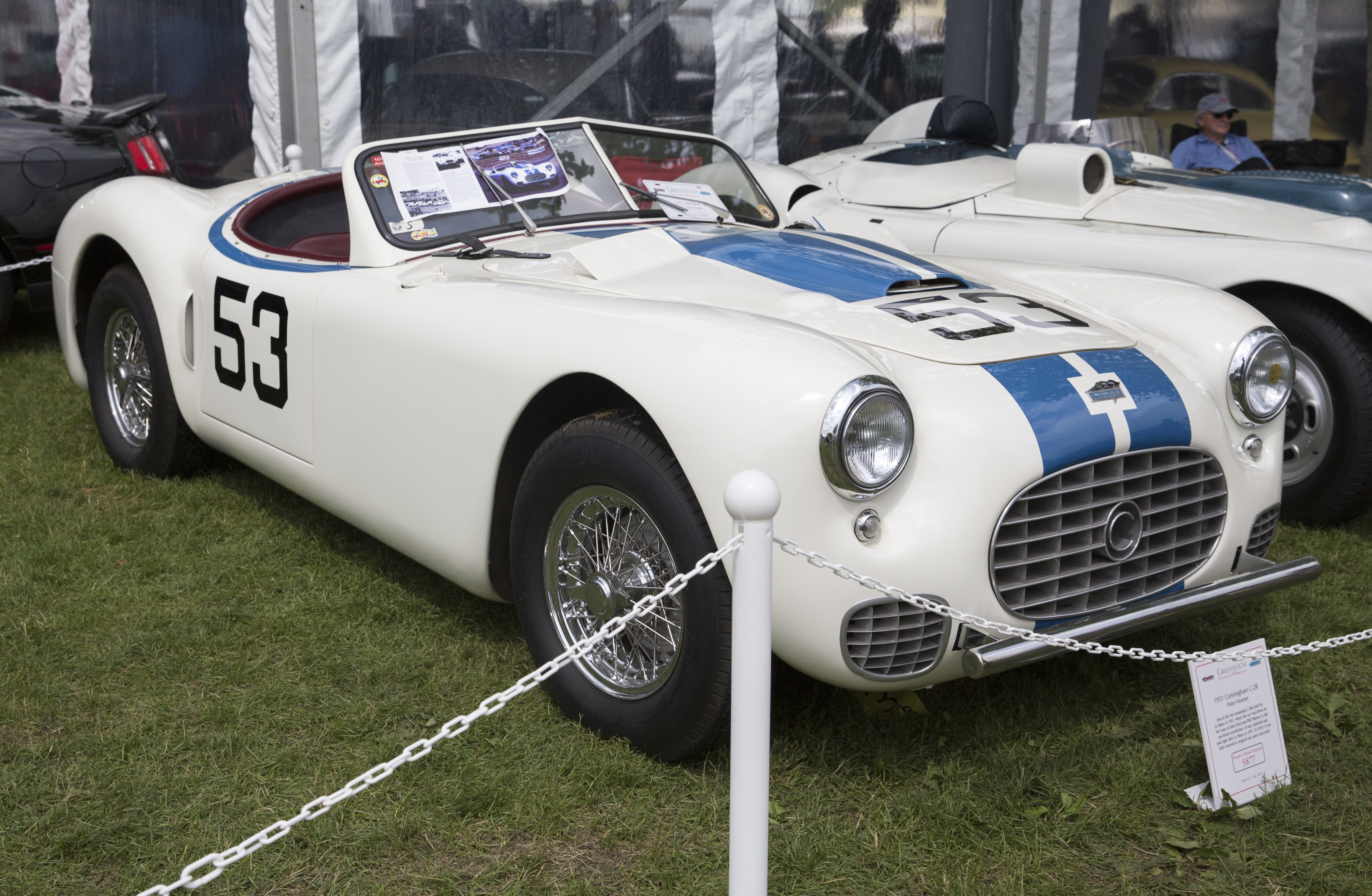 One of the four built Cunningham C2-R, displayed at the 2018 Greenwich Concours d'Elegance. Three went to Le Mans in 1951, with this car (driven by Fred Wacker and George Rand) involved in a crash after eleven hours and 98 laps. 220hp, 331ci Chrysler Hemi V8 engine. A spare car (5105) was built too, but not raced. All of the cars were later sold on to private individuals. 33 of the 35 Cunninghams built were gathered for the 2018 Greenwich Concours d'Elegance. Some said that this is all the remaining ones, while others told me that one car was missing. Never mind, it was a more than impressive gathering.